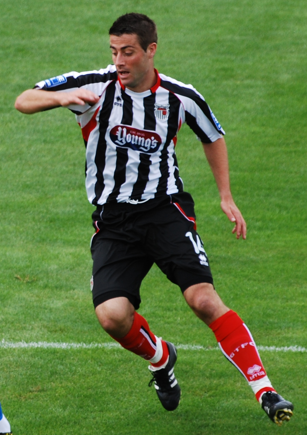 Adam Boyes. Image cropped from original at flickr.